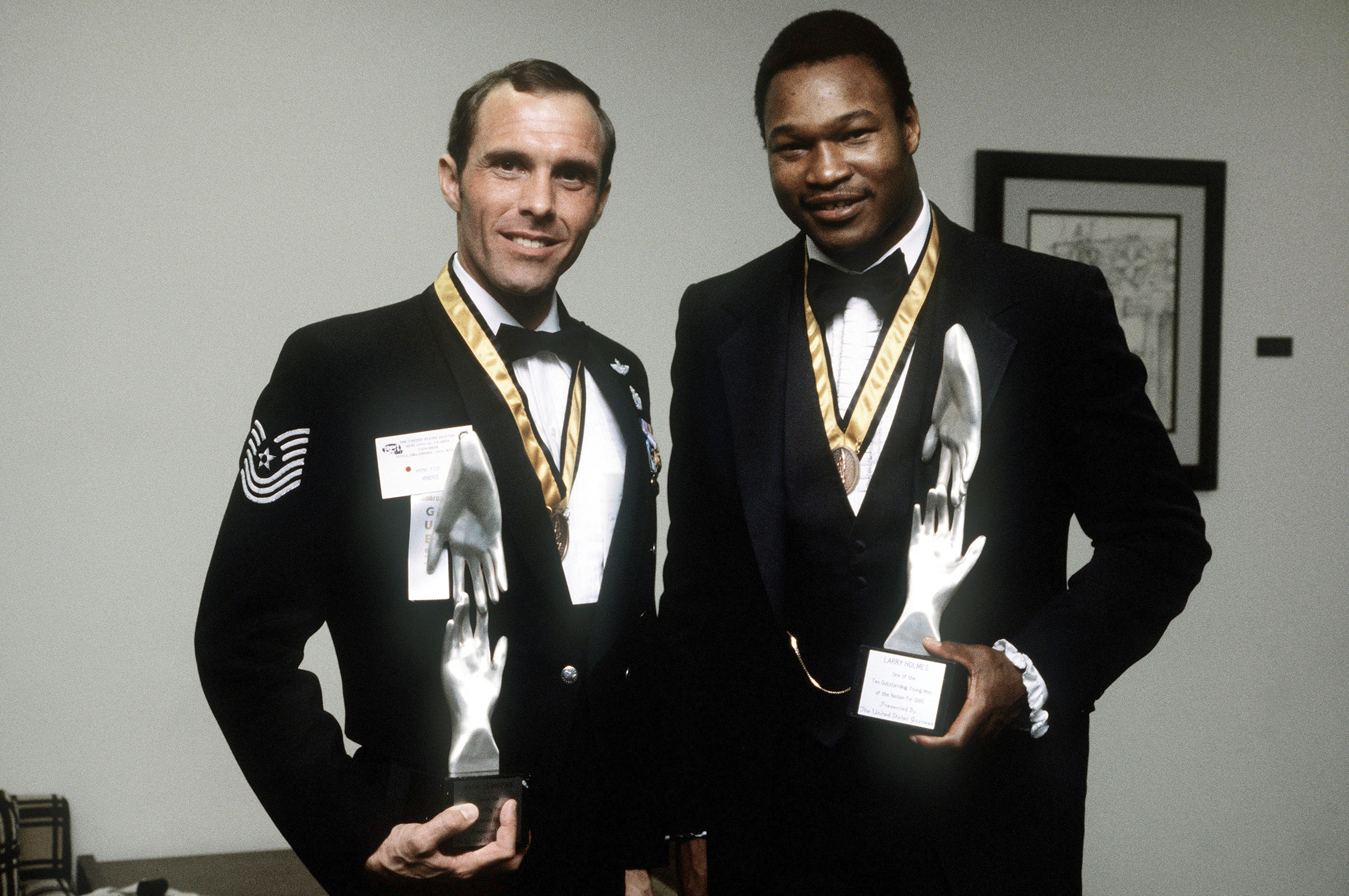 MSGT Wayne L. Fisk (on the left) stands with Larry Holmes, the current heavy-weight boxing champion, after they both receive awards from the United States Jaycees as Oustanding Young Men of the Year. Location: TULSA (original text)